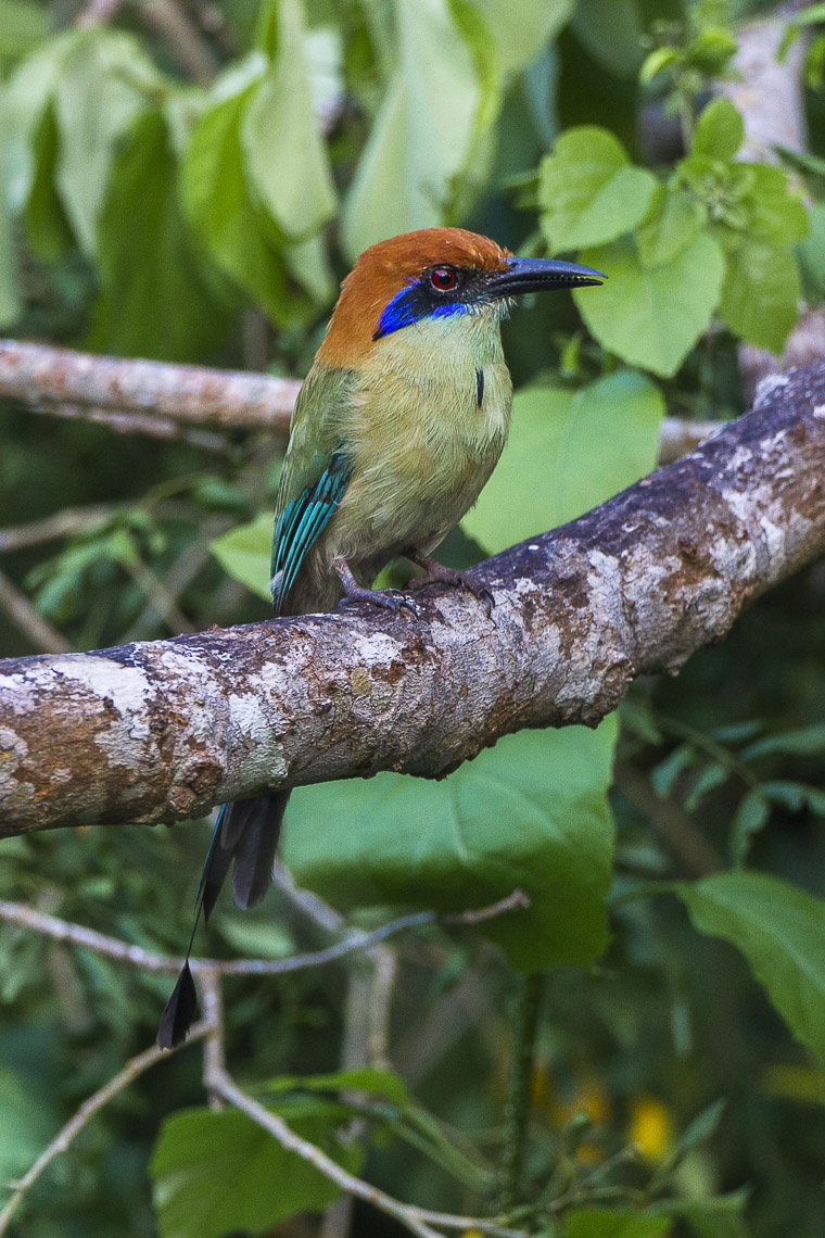 Russet-crowned Mot-mot - Mexico_S4E8487